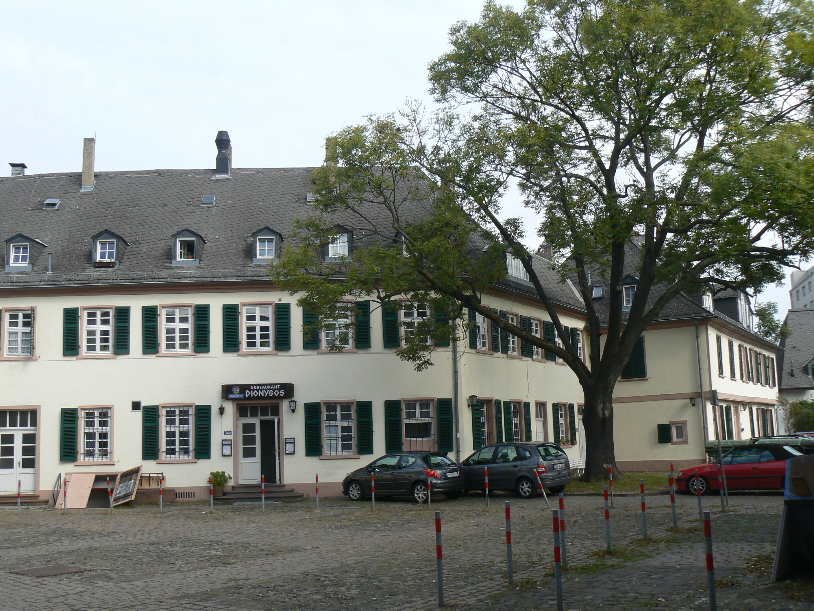 Anbau des wiederaufgebautes barocken Herrenhauses des ehemaligen Gutshofes Schönhof in Ffm-Bockenheim